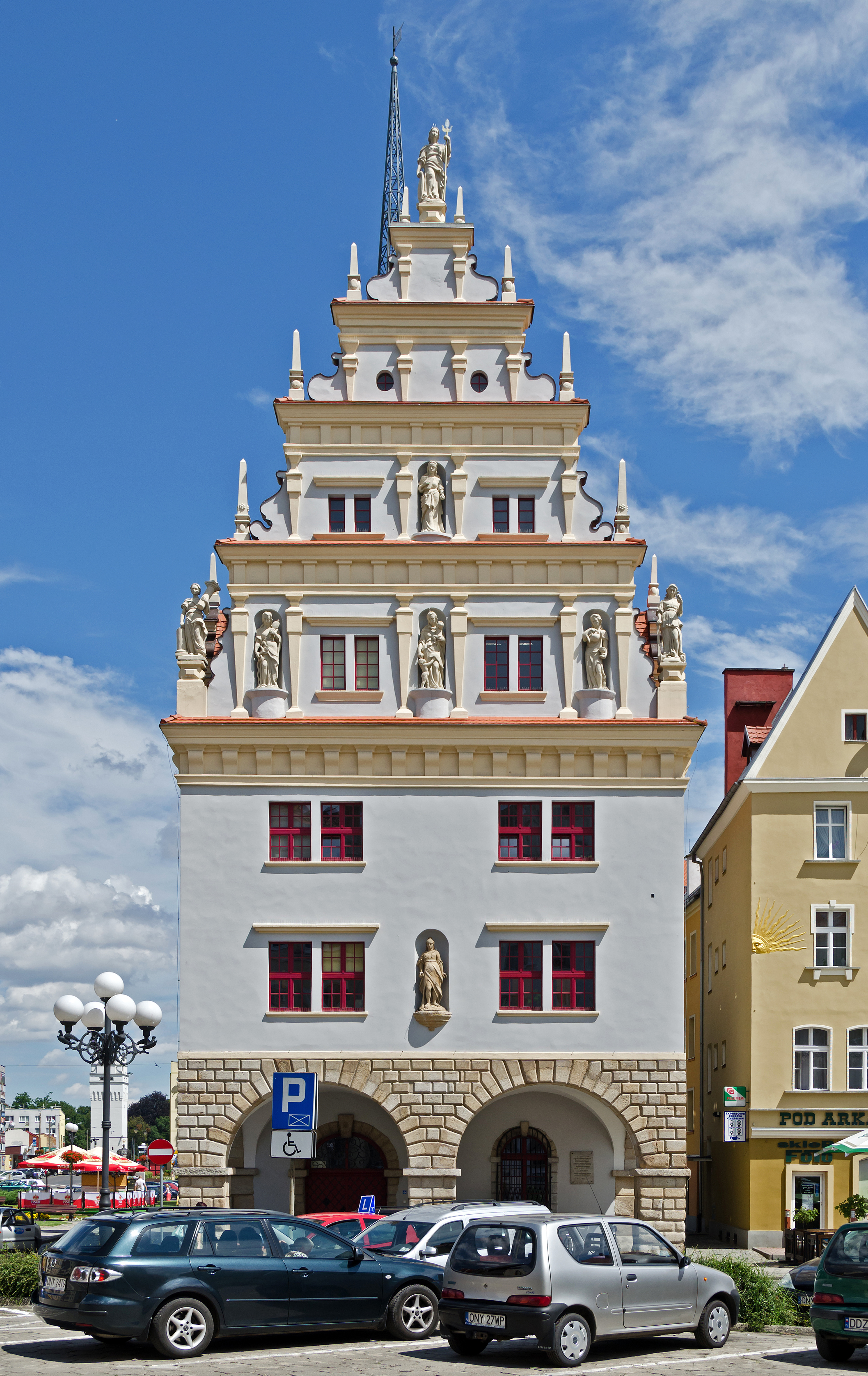 City Scales House in Nysa